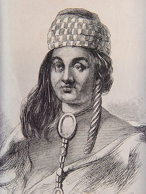 Ninigret [also known as Juanemo according to Roger Williams ] (c.1610 [1 ]-1677 [2 ]) was a sachem of the eastern Niantic Native American tribe in New England . Ninigret allied with the English settlers and Narragansetts against the Pequots in 1637. Ninigret did not participate in King Philip's War and was largely responsible for preventing the Niantics from joining the War. [